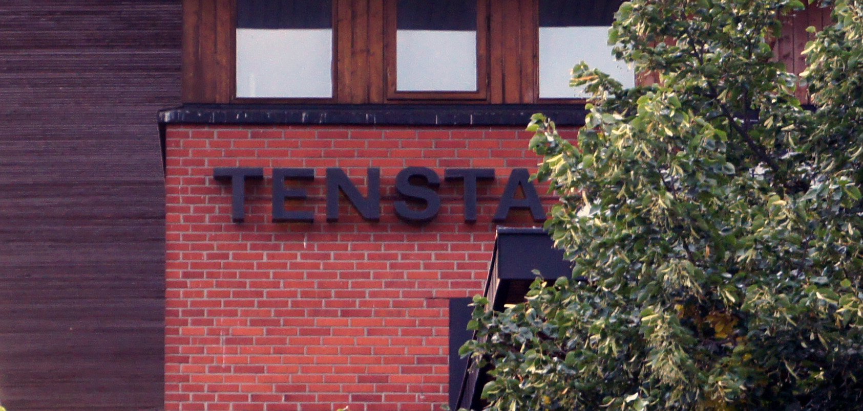 tensta logo